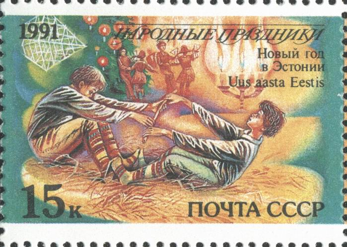 A USSR stamp